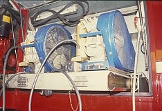 Monza circuit paddock - High pressure compressors in Ferrari van